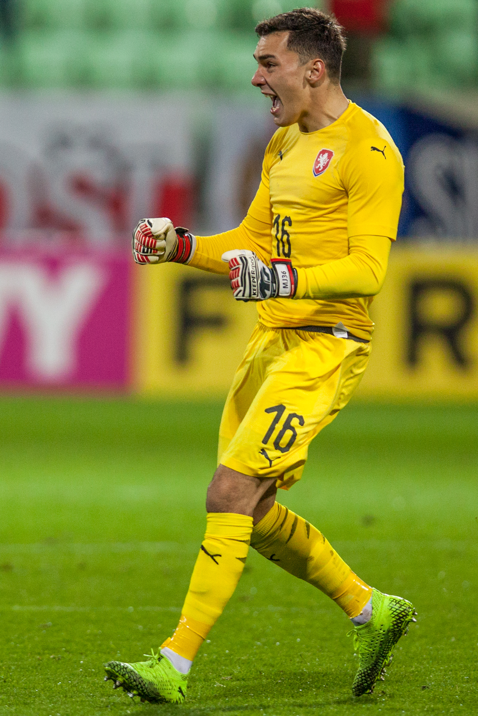 Martin Jedlička in an internatinoal association football match of European Under-21 Championship Qualifying Round between the Czech Republic and Greece, Městský stadion Karviná, Karviná District, Moravian-Silesian Region, Czechia Personality rights warningAlthough this work is freely licensed or in the public domain, the person(s) shown may have rights that legally restrict certain re-uses unless those depicted consent to such uses. In these cases, a model release or other evidence of consent could protect you from infringement claims.